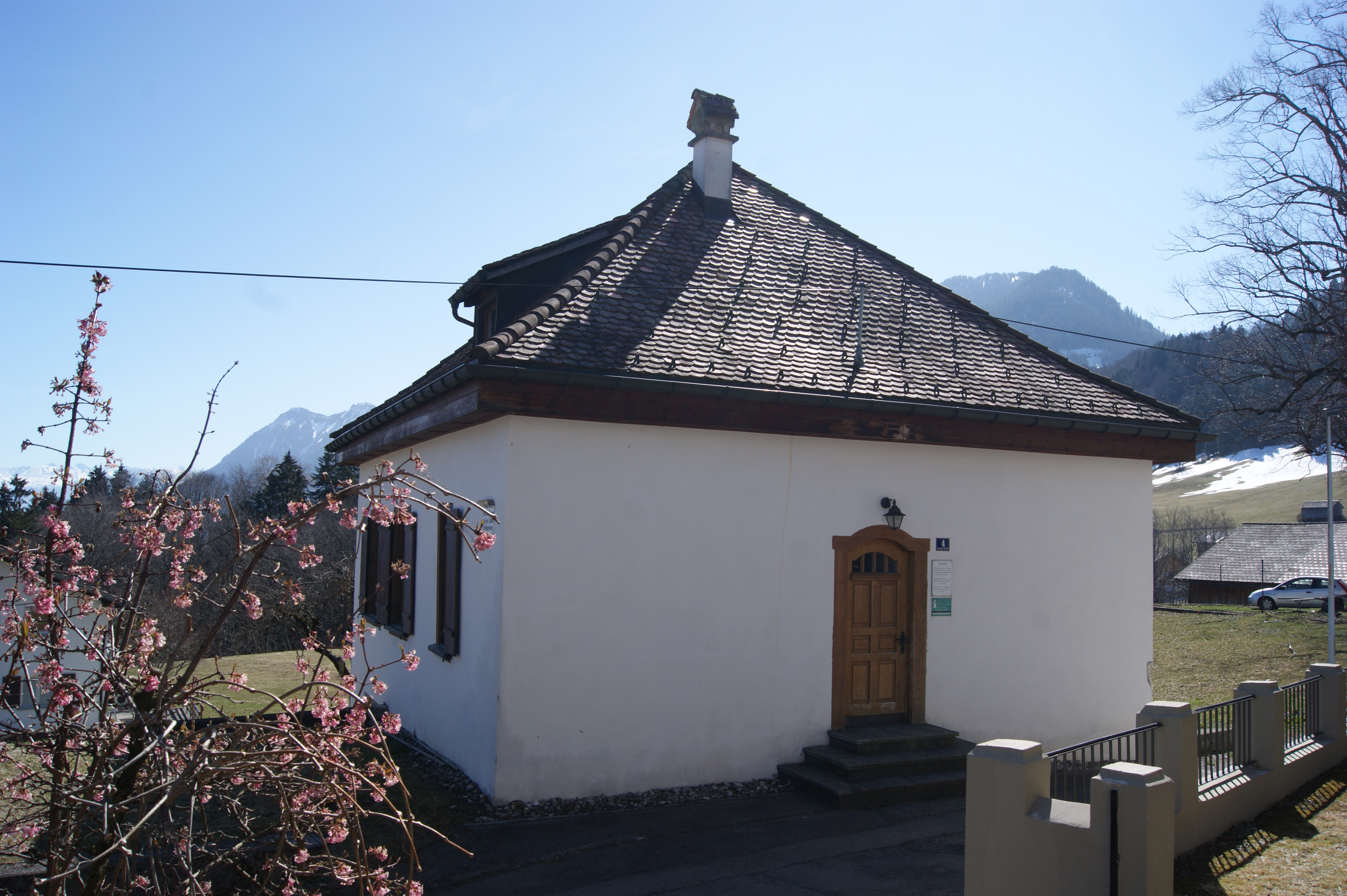 Former elementary school in Gurtis (Nenzing, Vorarlberg, Austria). Also called "Kaplanei". Today clubhouse. Built 1834-1839. Heritage property.